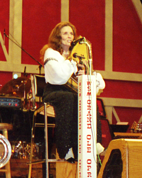 June Carter Cash playing at the Grand Ole Opry in Nashville, Tennessee, United States.